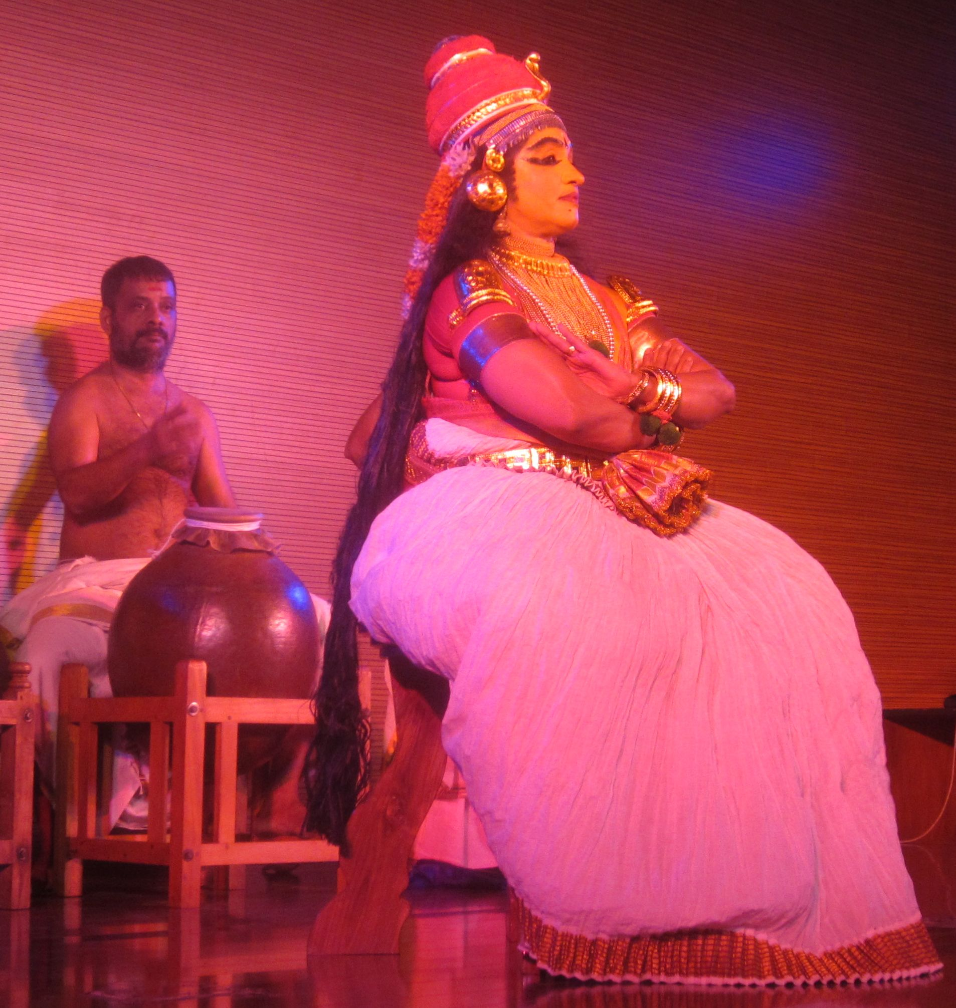 Hariharan playing Mizhavu for Usha Nangiar's performance